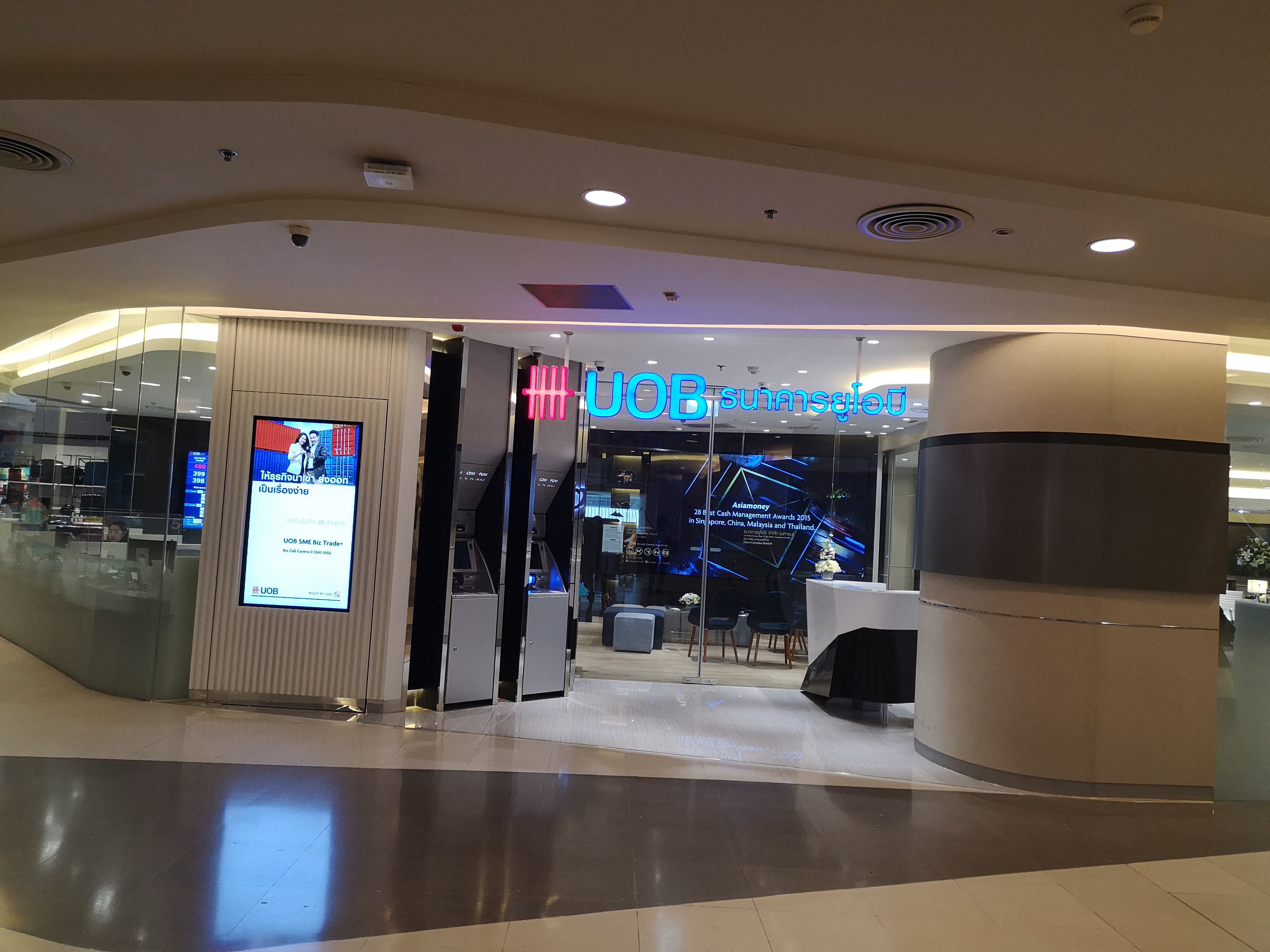 UOB Bank at Central Silom Complex